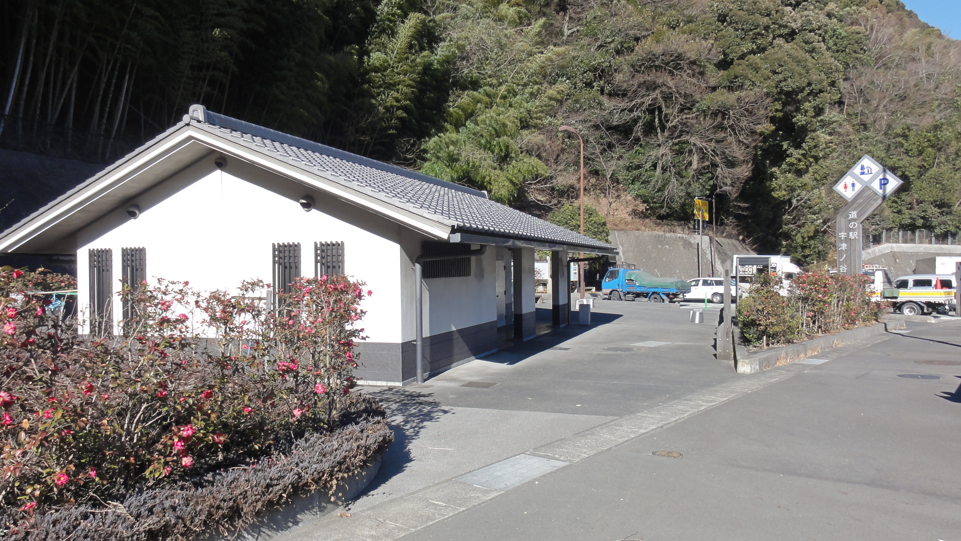 Michinoeki Utsunoya Toge (Shizuoka City, eastbound line)